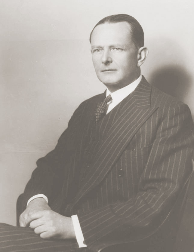 Edward Bernard Raczyński (1881-1993) - Polish diplomat, writer, politician and President of Poland in exile (between 1979 and 1986).